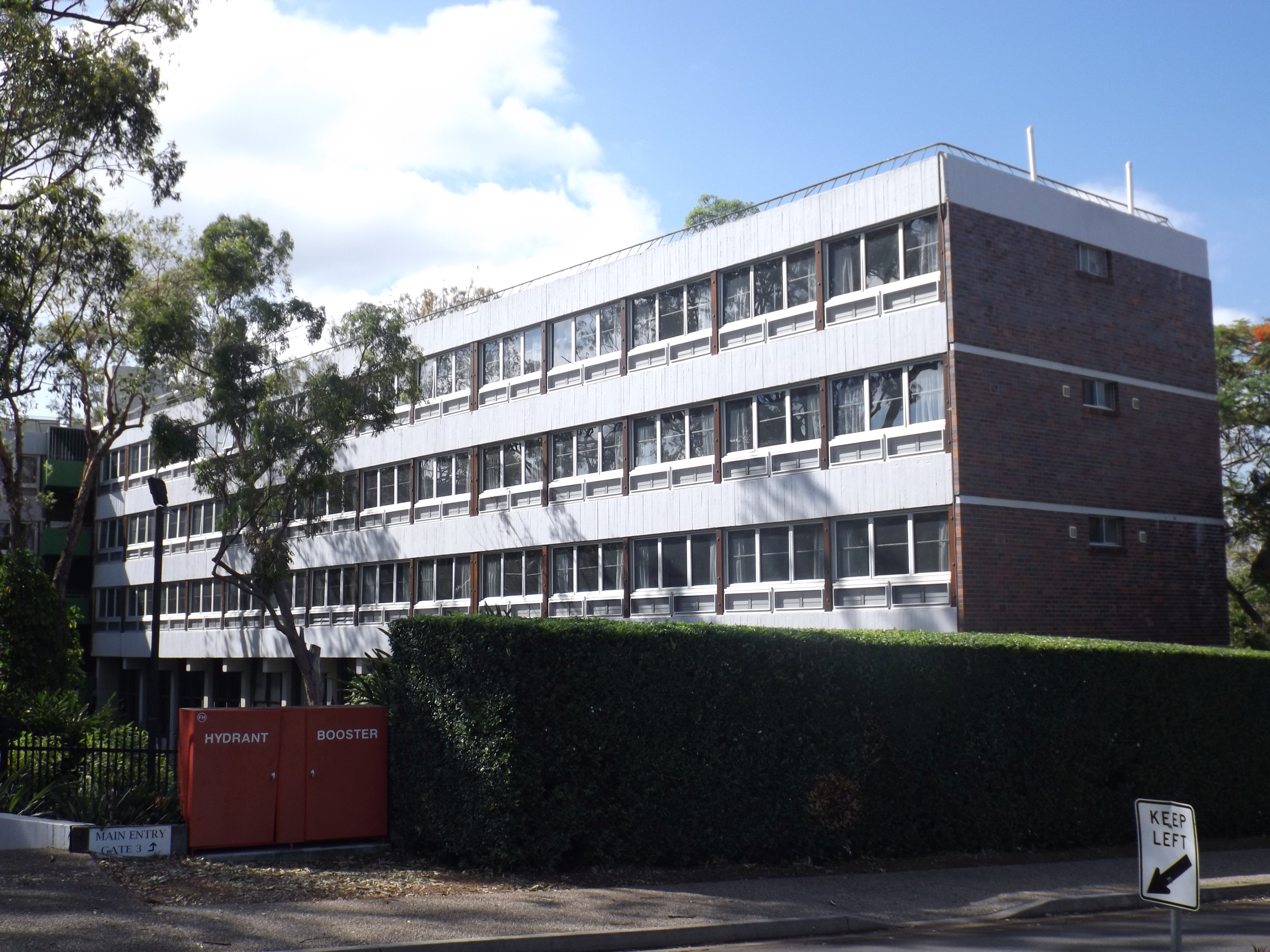 Photo of Western Wing of Union College at the University of Queensland, as seen from Upload Road, St Lucia, Queensland, Australia.